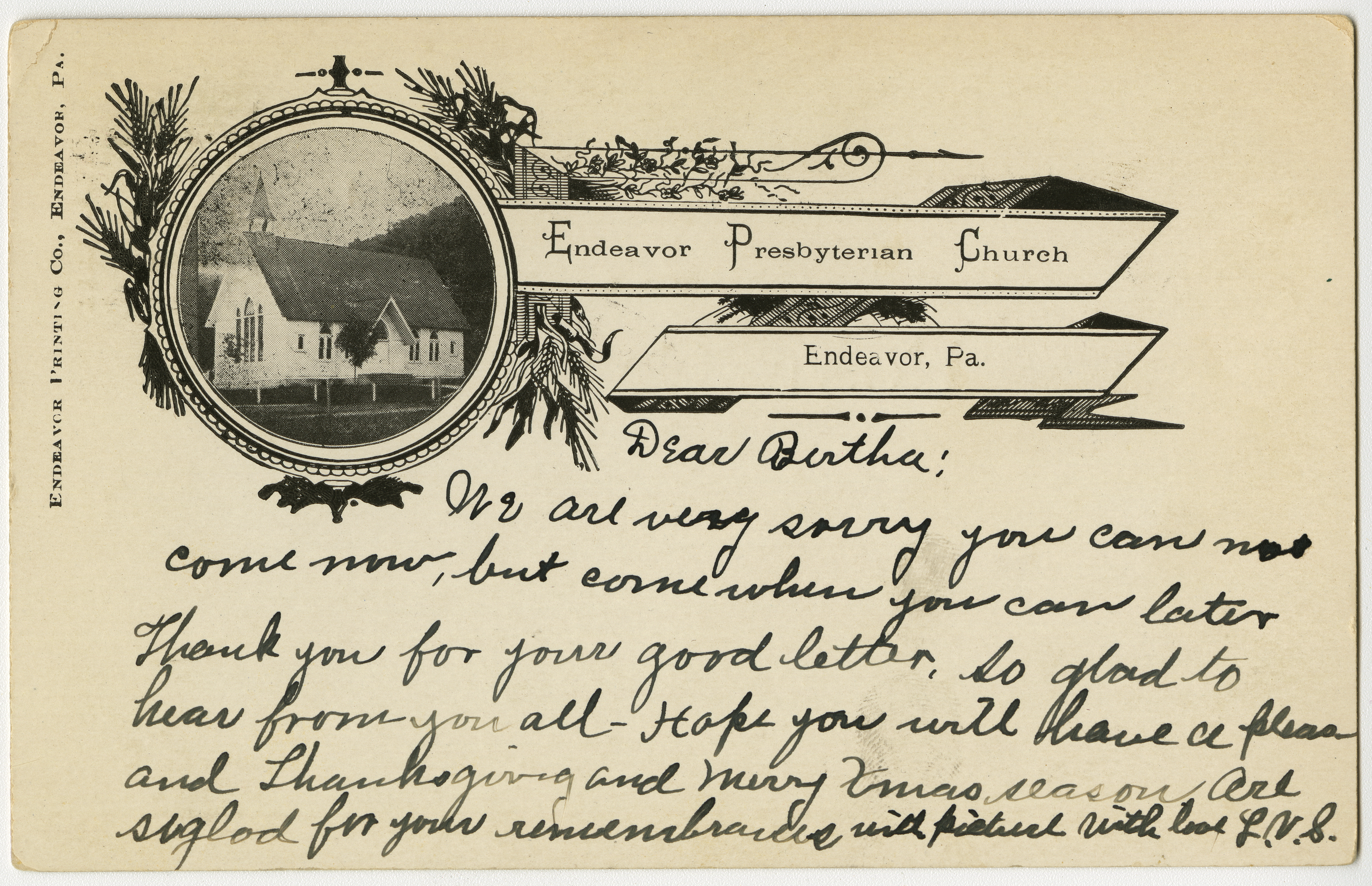 Presbyterian church in Endeavor, Pennsylvania from a pre-1923 postcard From RG 428, Postcard Collection, Presbyterian Historical Society, Philadelphia, Pennsylvania.